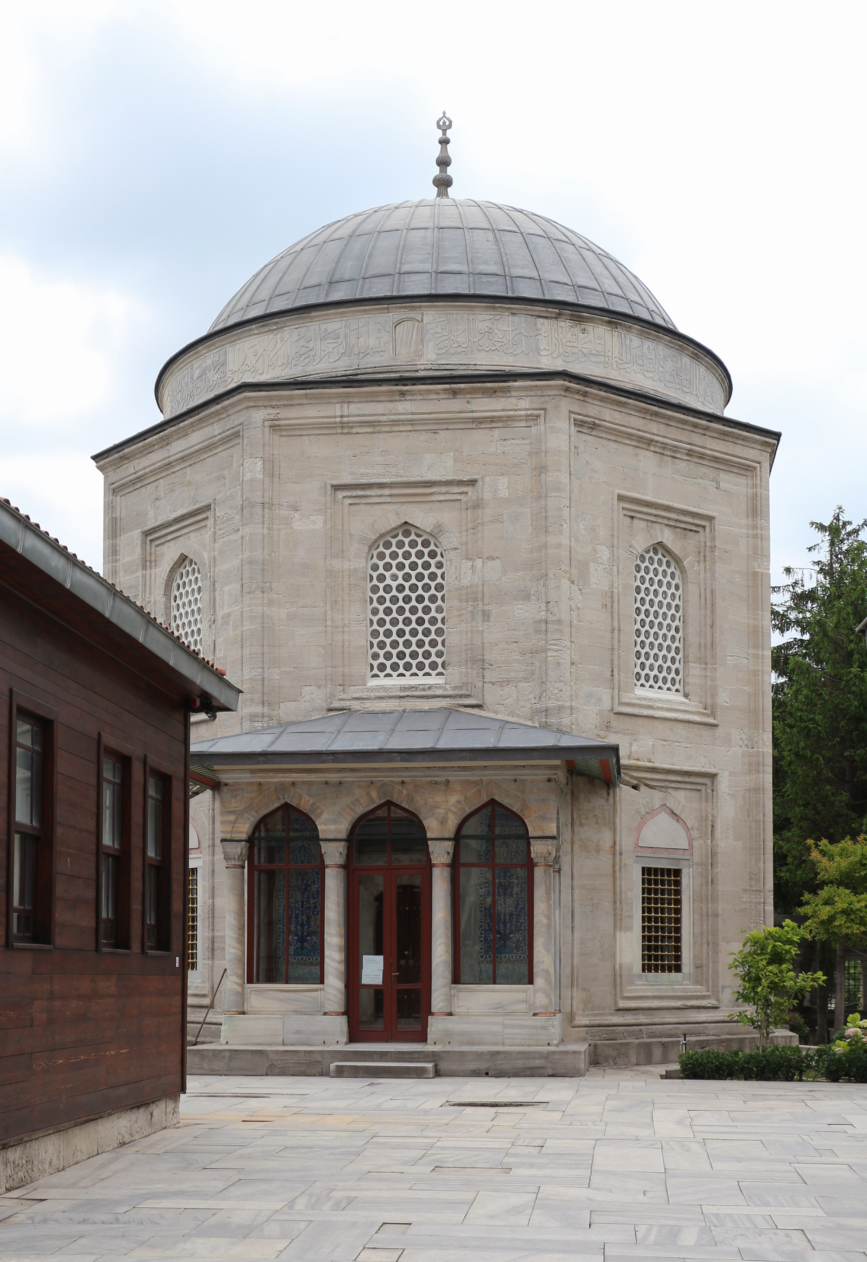 Mausoleum of Roxelana near Süleymaniye Mosque, Istanbul